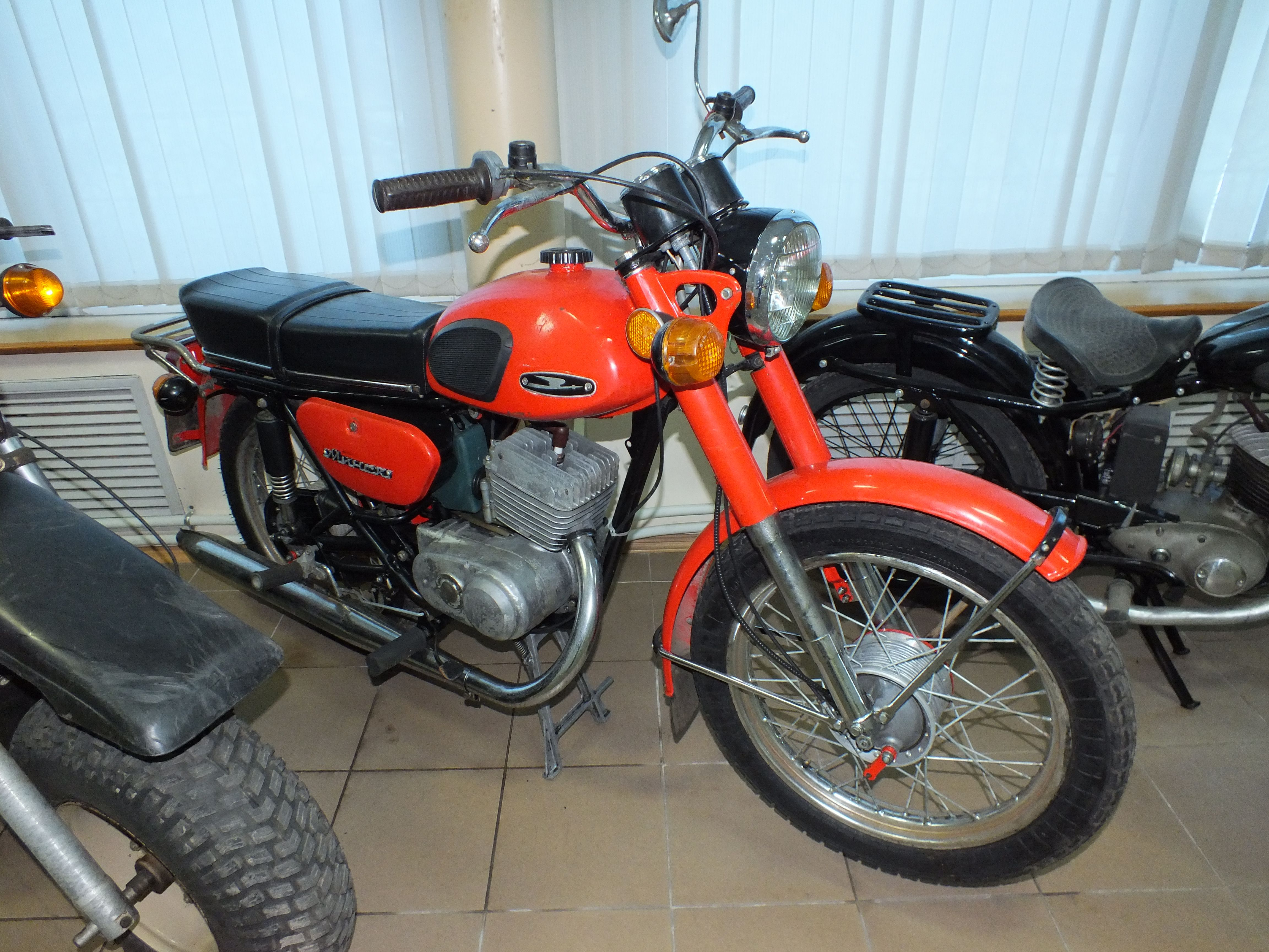 Motorcycles of Russia